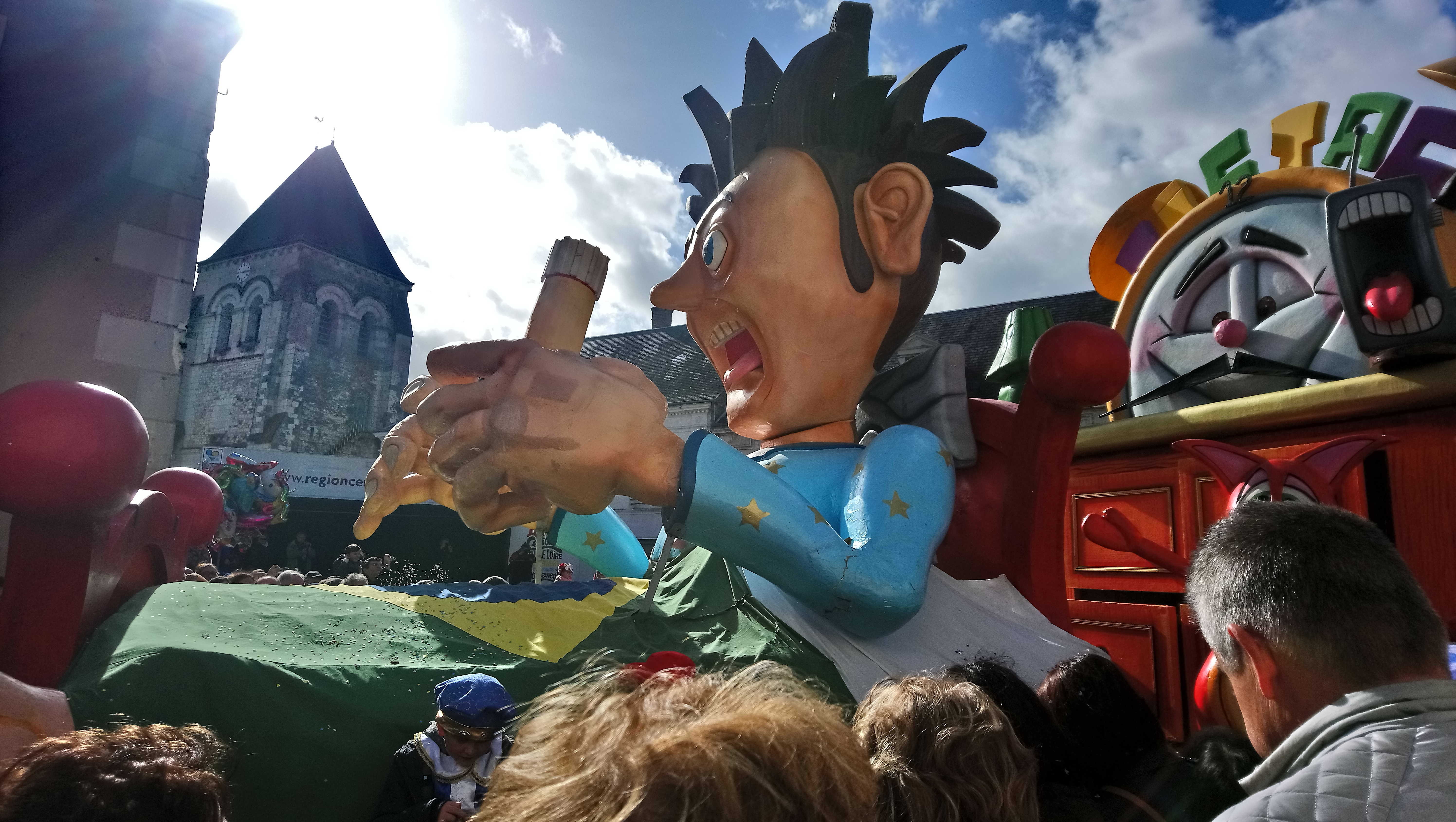 Carnaval de Manthelan (37)